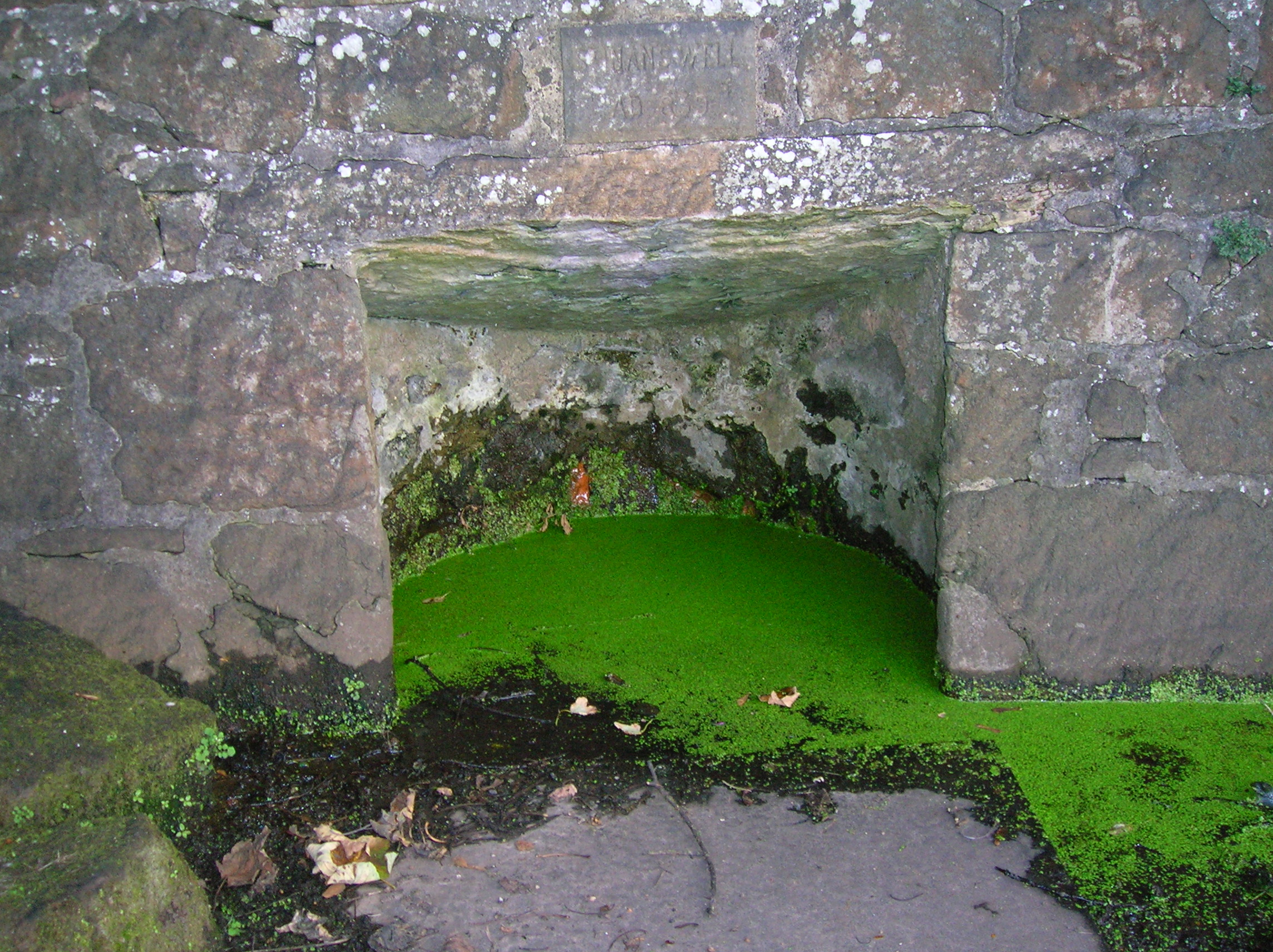 Saint Inans Well, dated 839 AD, Irvine, North Ayrshire, Scotland. Research indicates that the well should be called Chapel Well